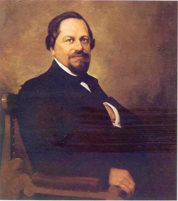 Portrait of Simon Sinas. Greek entrepreneur and national benefactor from Moscopole.